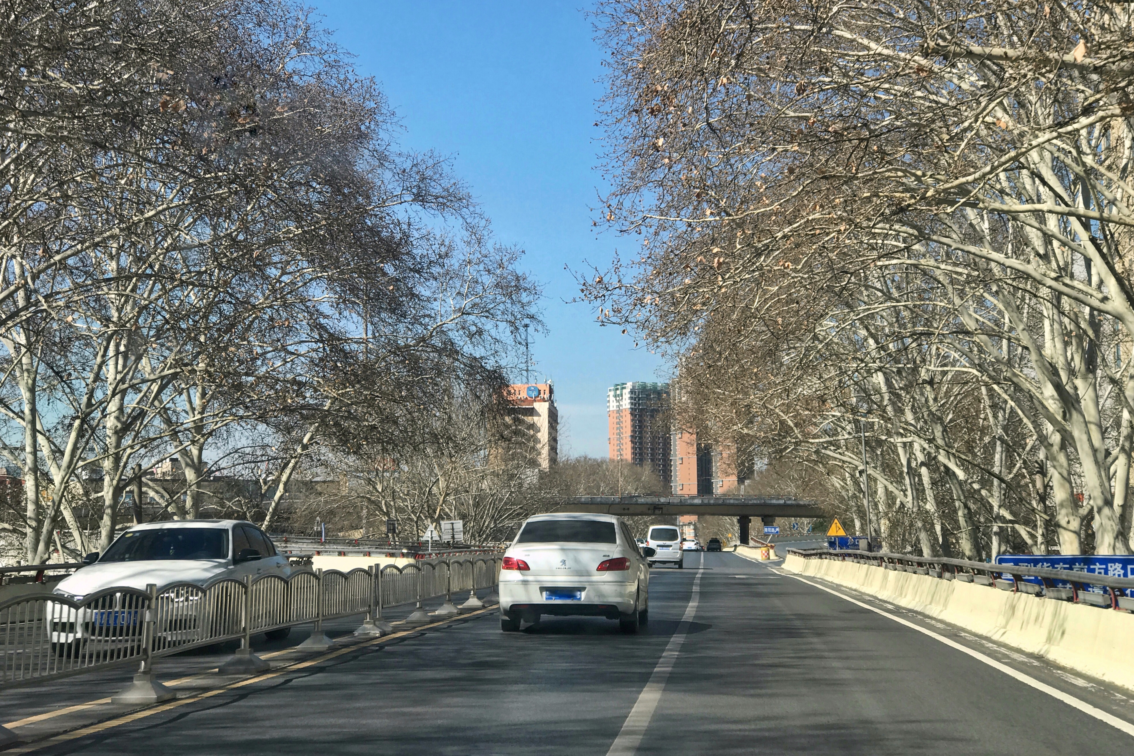 Elevated section of Jinshui Road in Zhengzhou